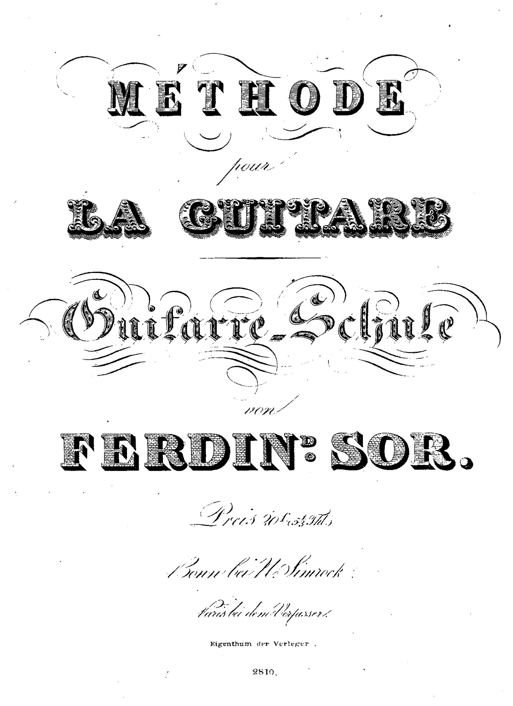 Méthode pour la guitare = Guitarre-Schule, Bonn : N. Simrock, 1831.